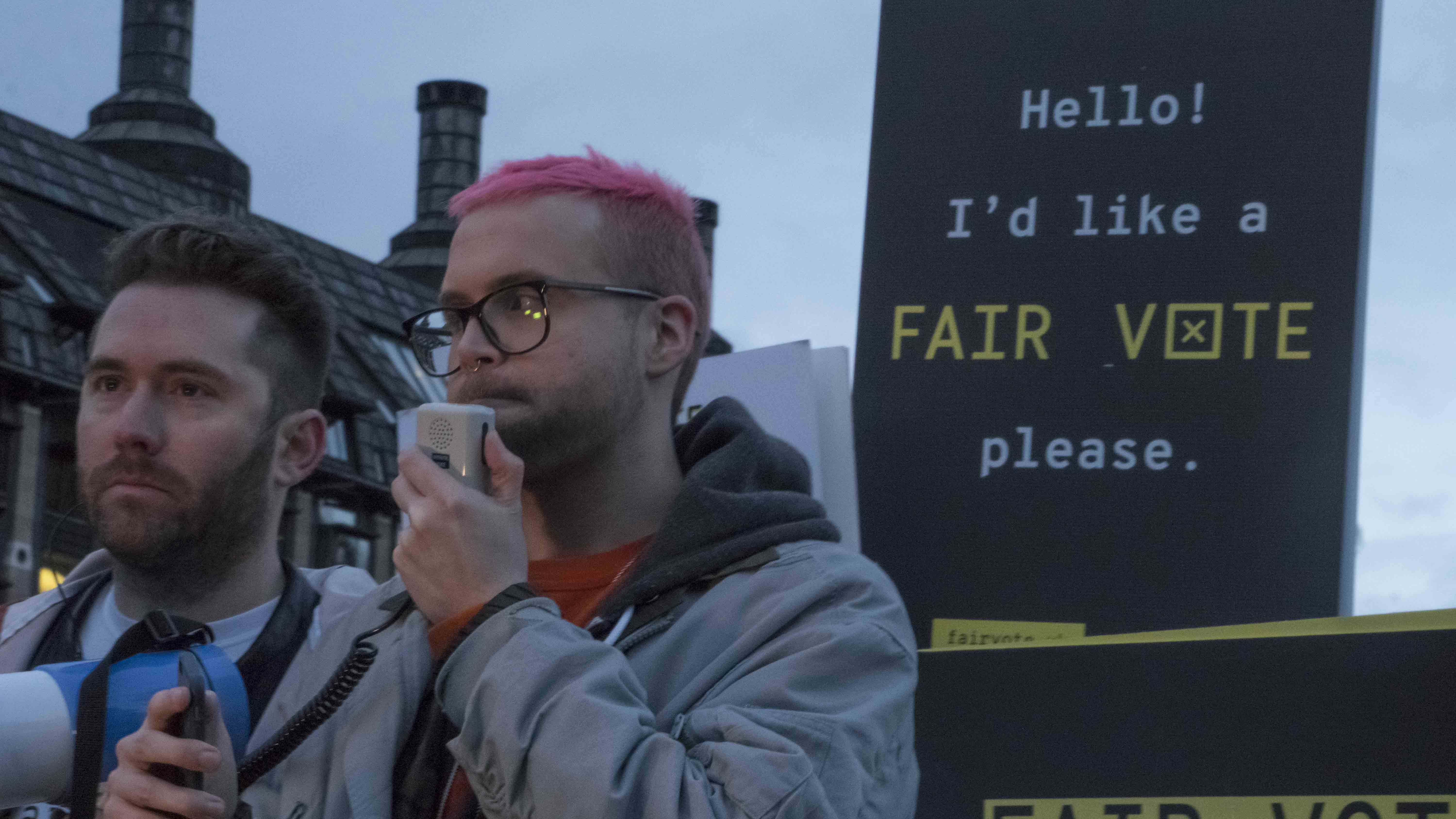 A protest following the Cambridge Analytics and Facebook data scandal with Christopher Wylie and Shahmir Sanni.